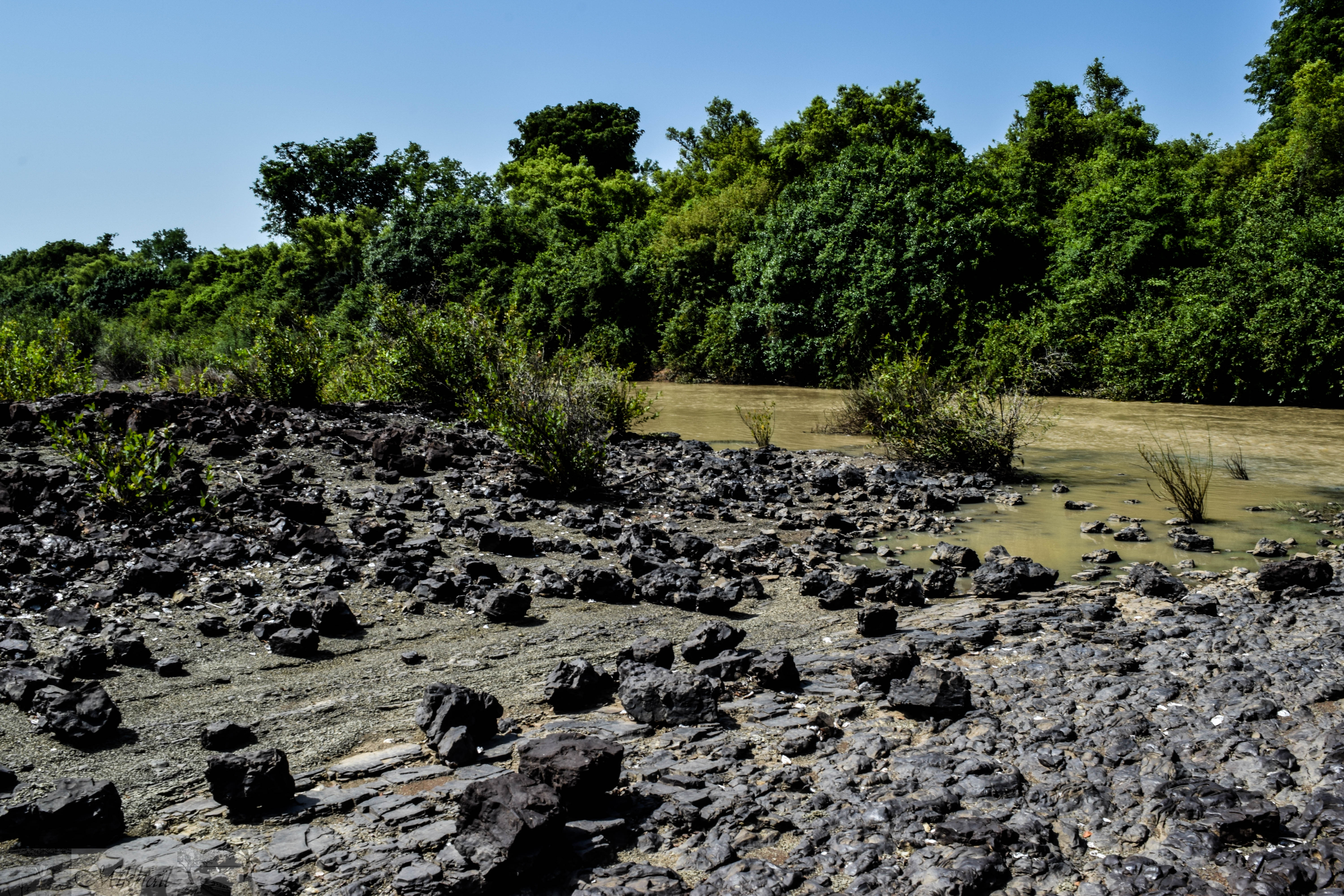 The Pendjari River gave its name to the Pendjari National Park, of which it is a natural limit. It is also a border line with Benin and Burkina Faso.